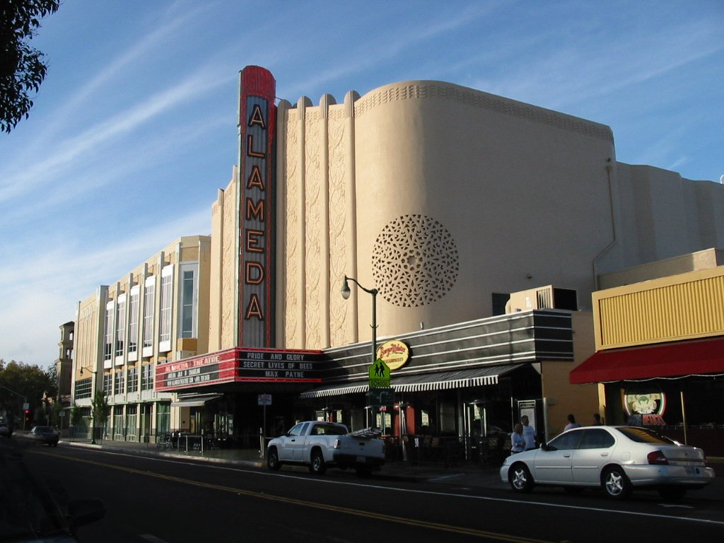 Photograph of the Alameda Theatre facade in the late afternoon.